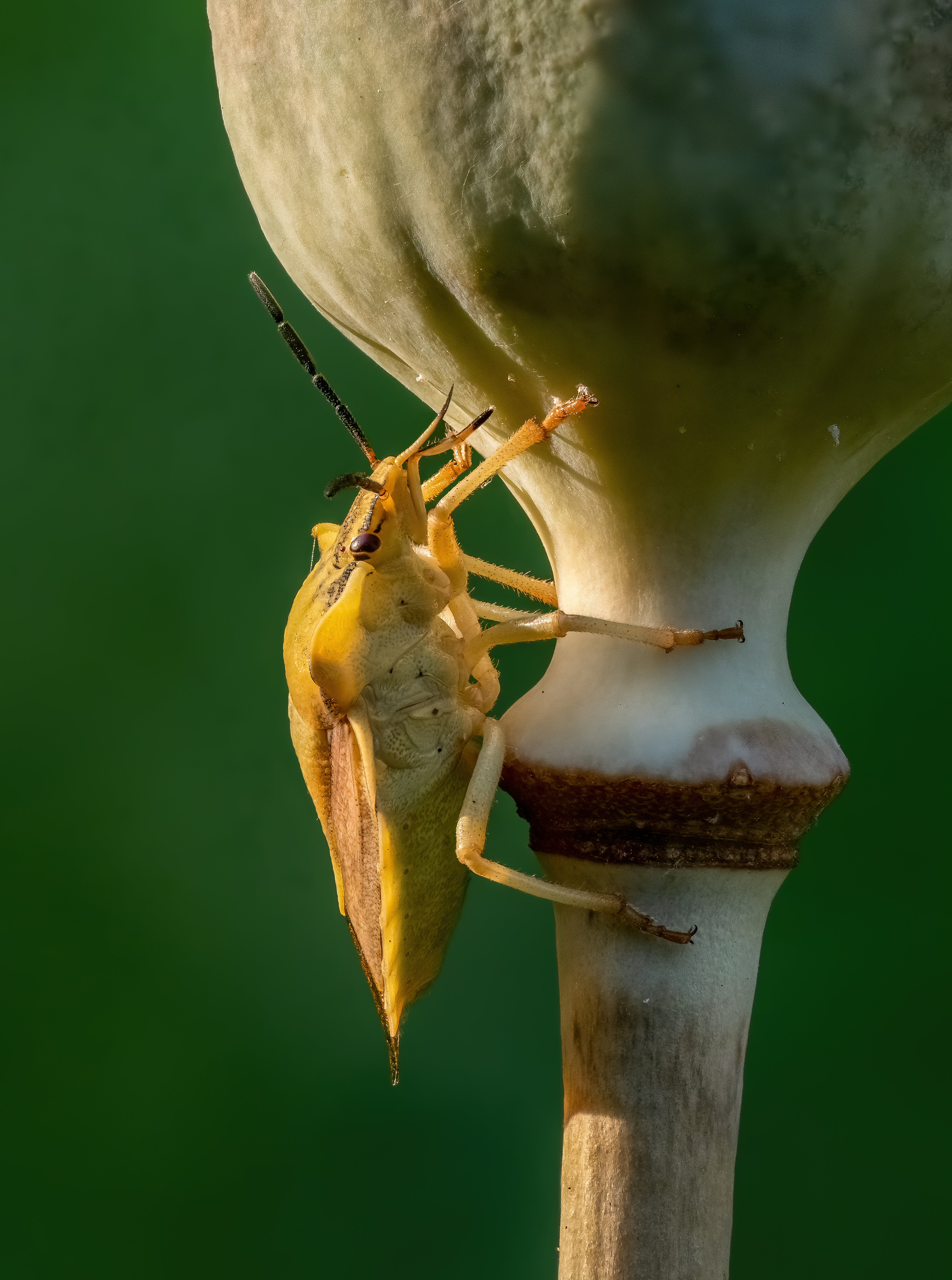 Carpocoris fuscispinus on the seed capsule of a poppy flower. Focus stack from 16 frames.